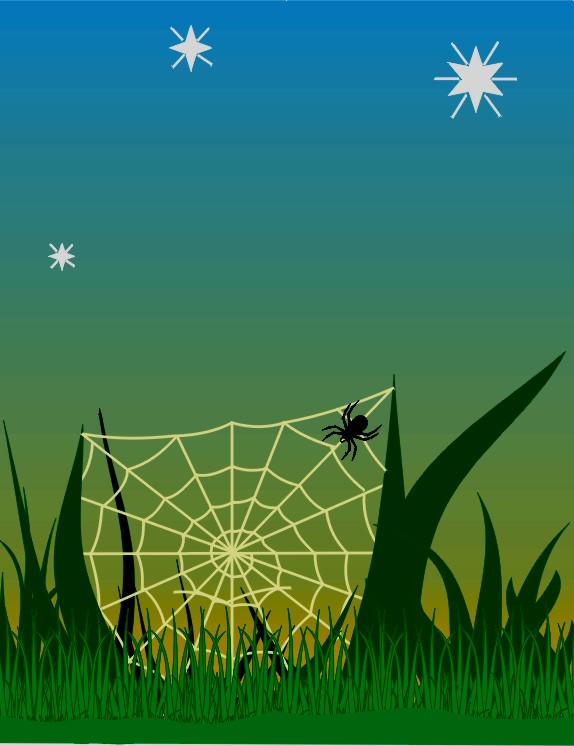 A spider on its web in the grass at dusk.